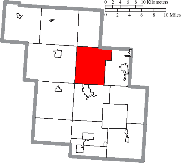 Map of the municipal and township boundaries of Perry County, Ohio, United States, as of the 2000 census, with the location of Clayton Township highlighted. Township borders are shown only in unincorporated areas in order to differentiate incorporated and unincorporated areas more clearly.